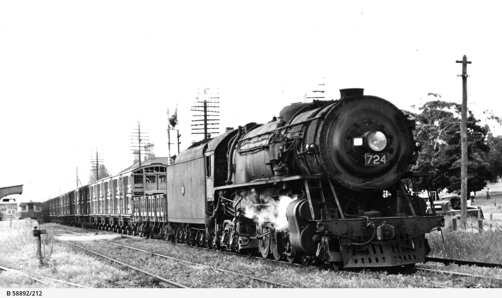 South Australian Railways 724 hauling a goods train, North Adelaide, 1952